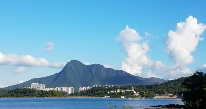 Ma On Shan from Tai Po 2020